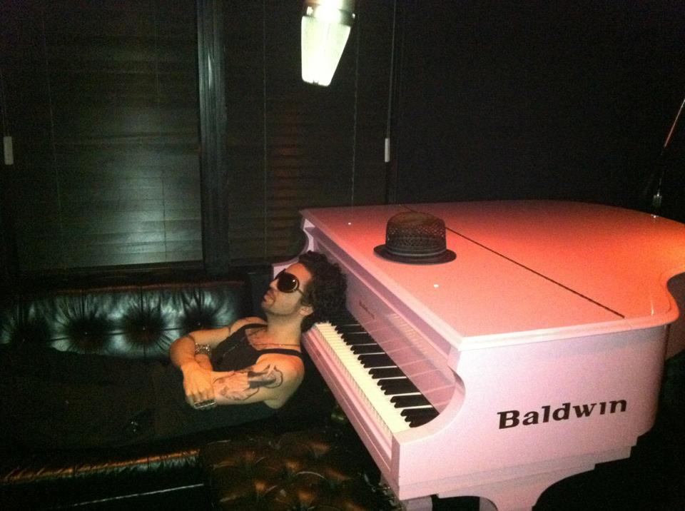 Photo of Jack Splash.